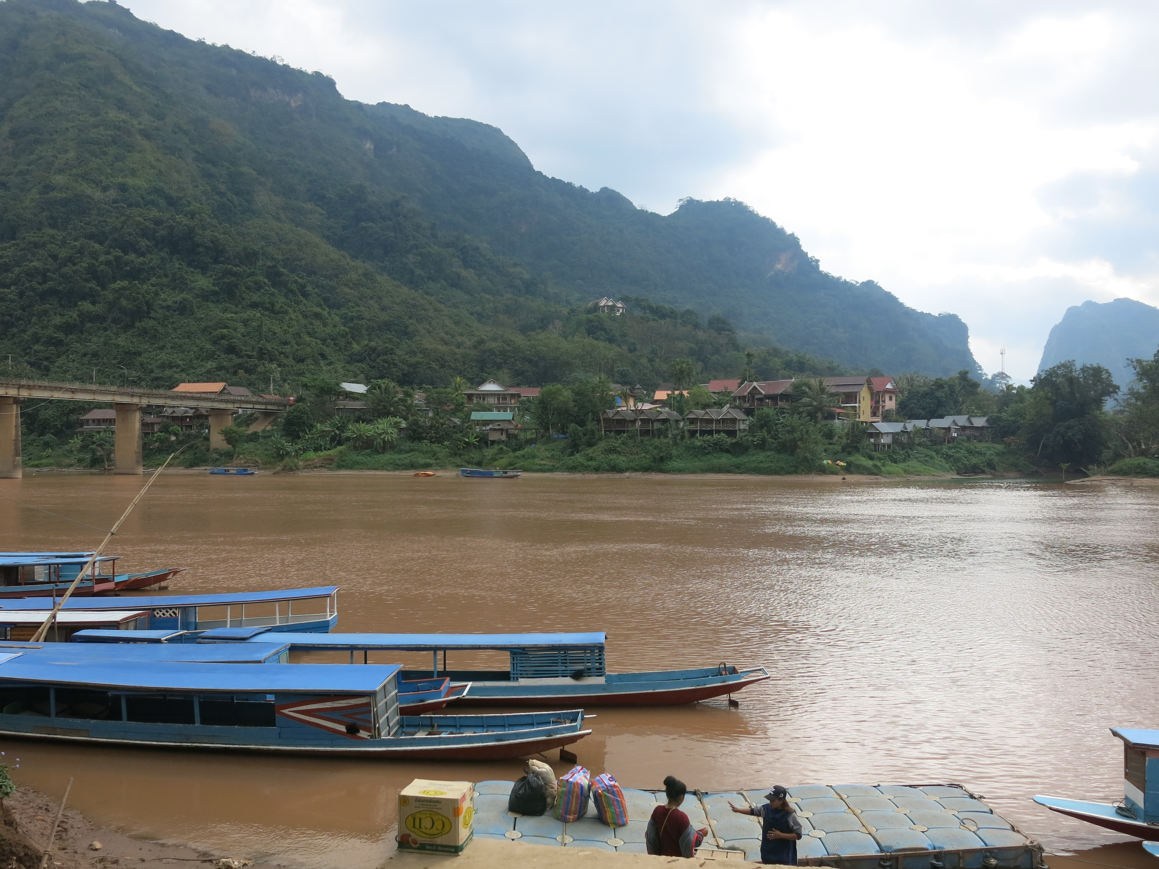 Jetty in Nong Khiaw at the north bank of Nam Ou